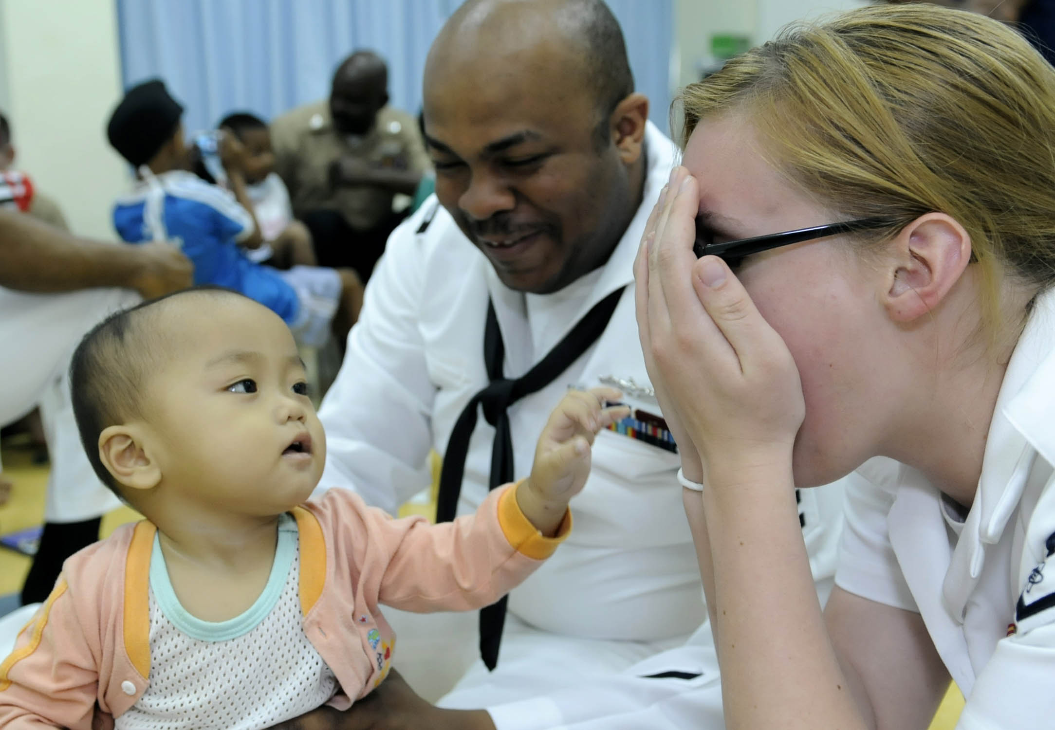 KOTA KINABULU, Malaysia (April 6, 2010) Operations Specialist 2nd Class Reginald Harlmon, left, and Electronics Technician 3rd Class Maura Schulze, both assigned to the U.S. 7th Fleet command ship USS Blue Ridge (LCC 19), play peek-a-boo with a child in the Children's Ward at Hospital Likas during a community service project. Blue Ridge is in Kota Kinabalu for a scheduled port visit. (U.S. Navy photo by Mass Communication Specialist 2nd Class Cynthia Griggs/Released)